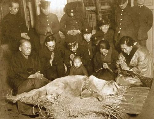 Last moment of Hachikō.